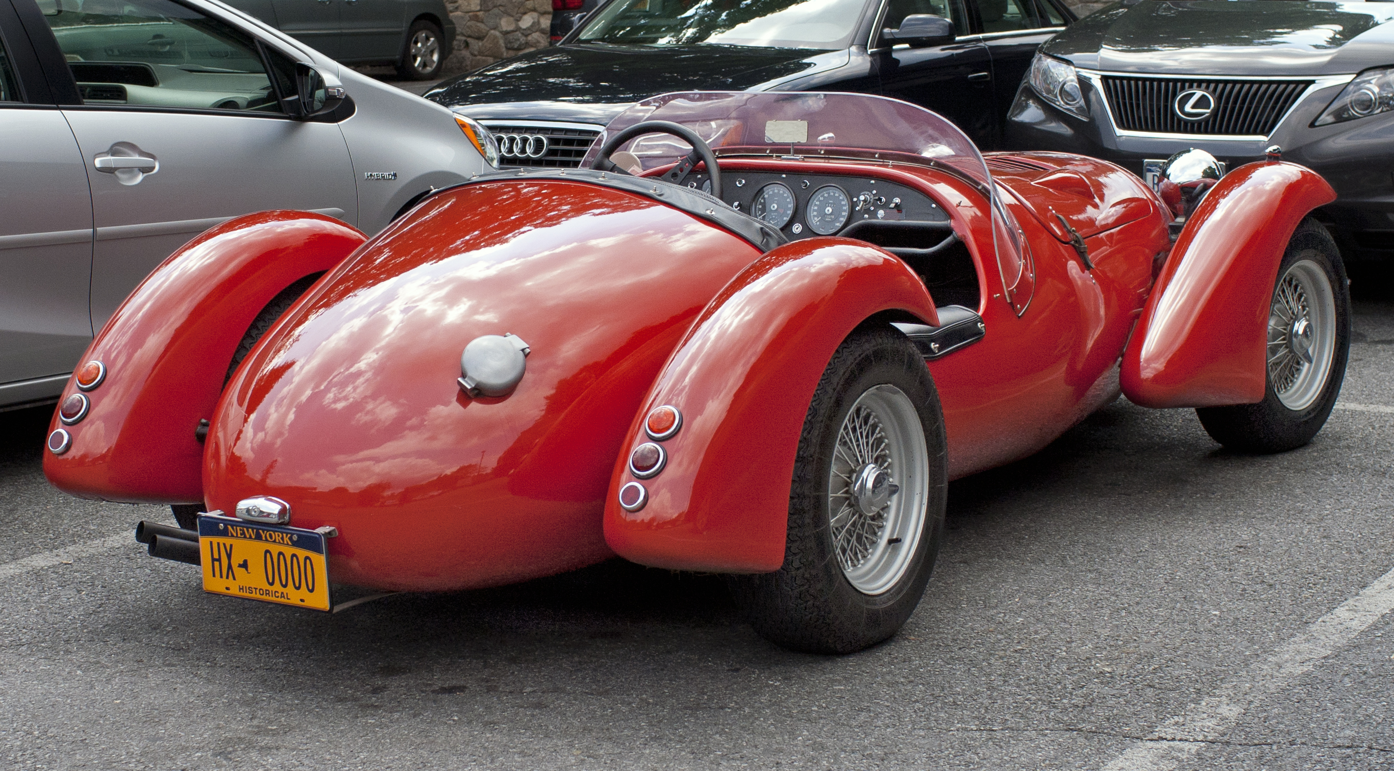 1979 Kougar Sports 3.8 Liter Roadster, chassis number P1B52479DN. Originally belonged to Road & Track editor Tony Hogg, and then to David E. Davis, Jr. Sold one week earlier (at the June 3, 2012 Bonham's Auction at the Greenwich Concours d'Elegance) and currently titled as a "1965 Jaguar".